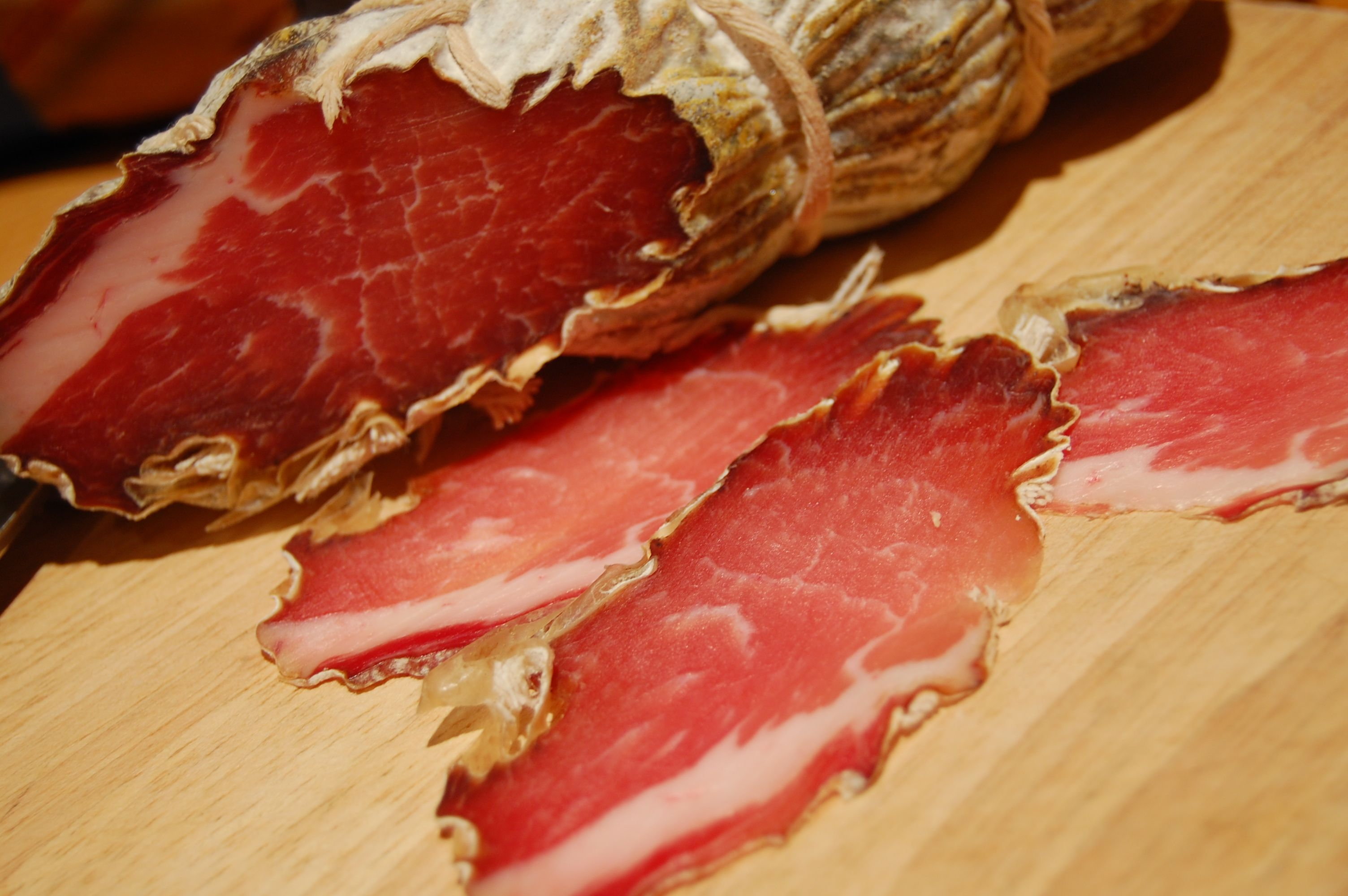 Lonzino (also known as Coppa) - Italy